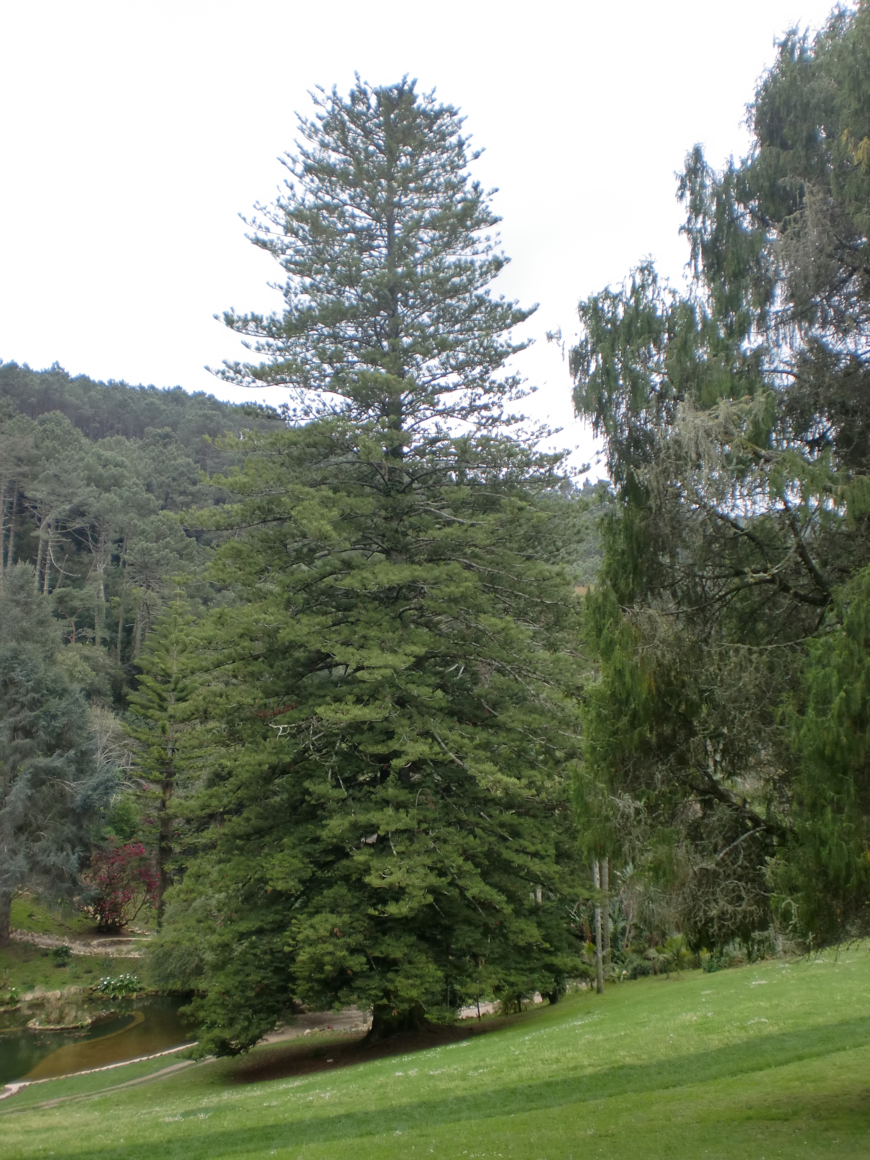 Araucária-de-Norfolk (da Ilha Norfolk, Pacífico) com cerca 50m de altura, sendo a maior das árvores no Jardim de Monserrate.